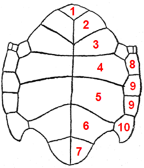 Plastron of Chelonia